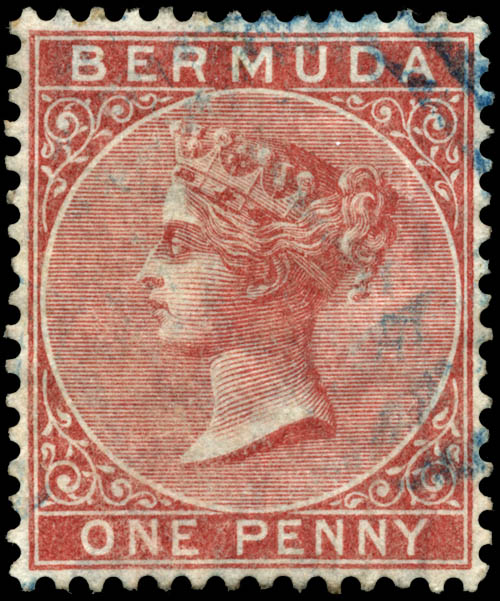 Bermuda 1-penny stamp of 1864